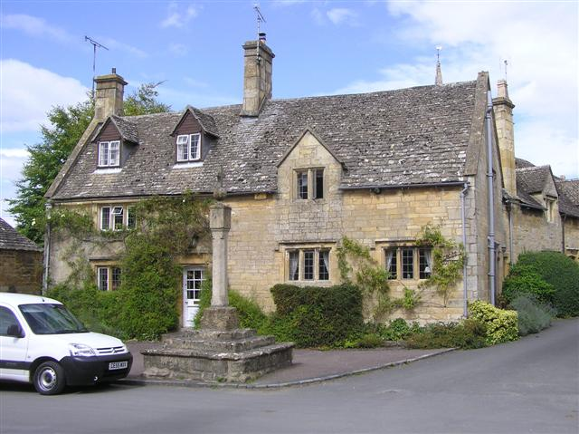 Village cross and Rose and Cross cottages, Stanton, Gloucestershire. The base and steps of the cross are Medieval; the shaft and sundial are 17th-century. It is not a war memorial. The cottages are 17th- and 18th-century.